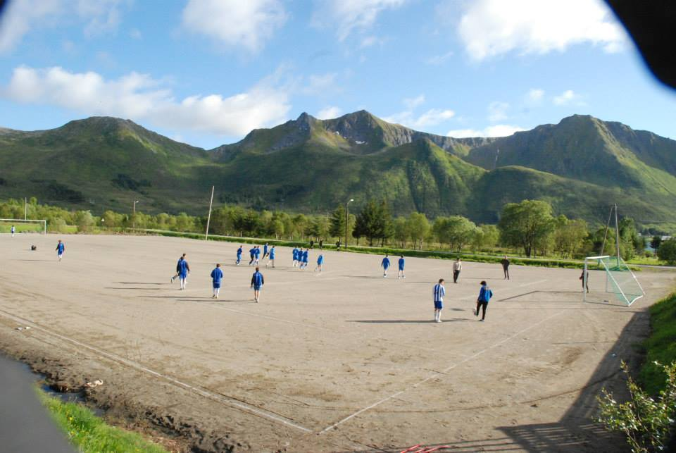 Foto of Strauman stadion taken in the match between Strauman IL and Svolvær IL. Strauman won 7-2.